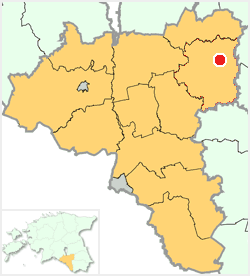 Location Otepää town, Estonia.